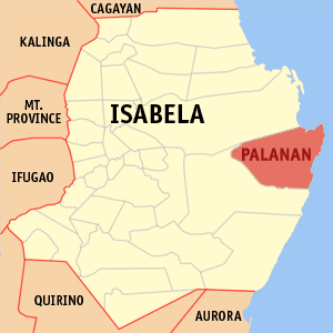 Map of Isabela showing the location of Palanan